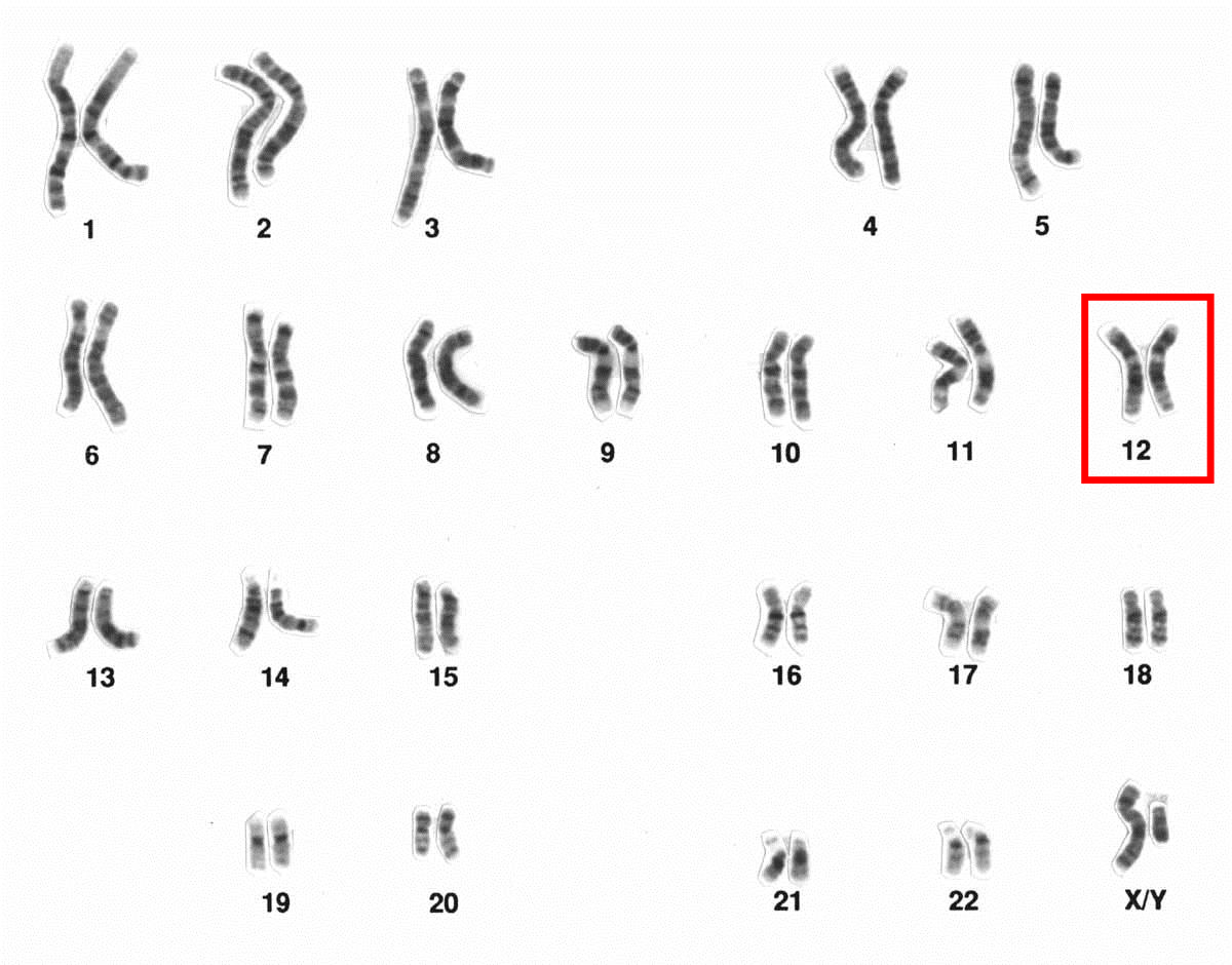 Human male Karyotype after G-banding. Chromosome 12 highlighted